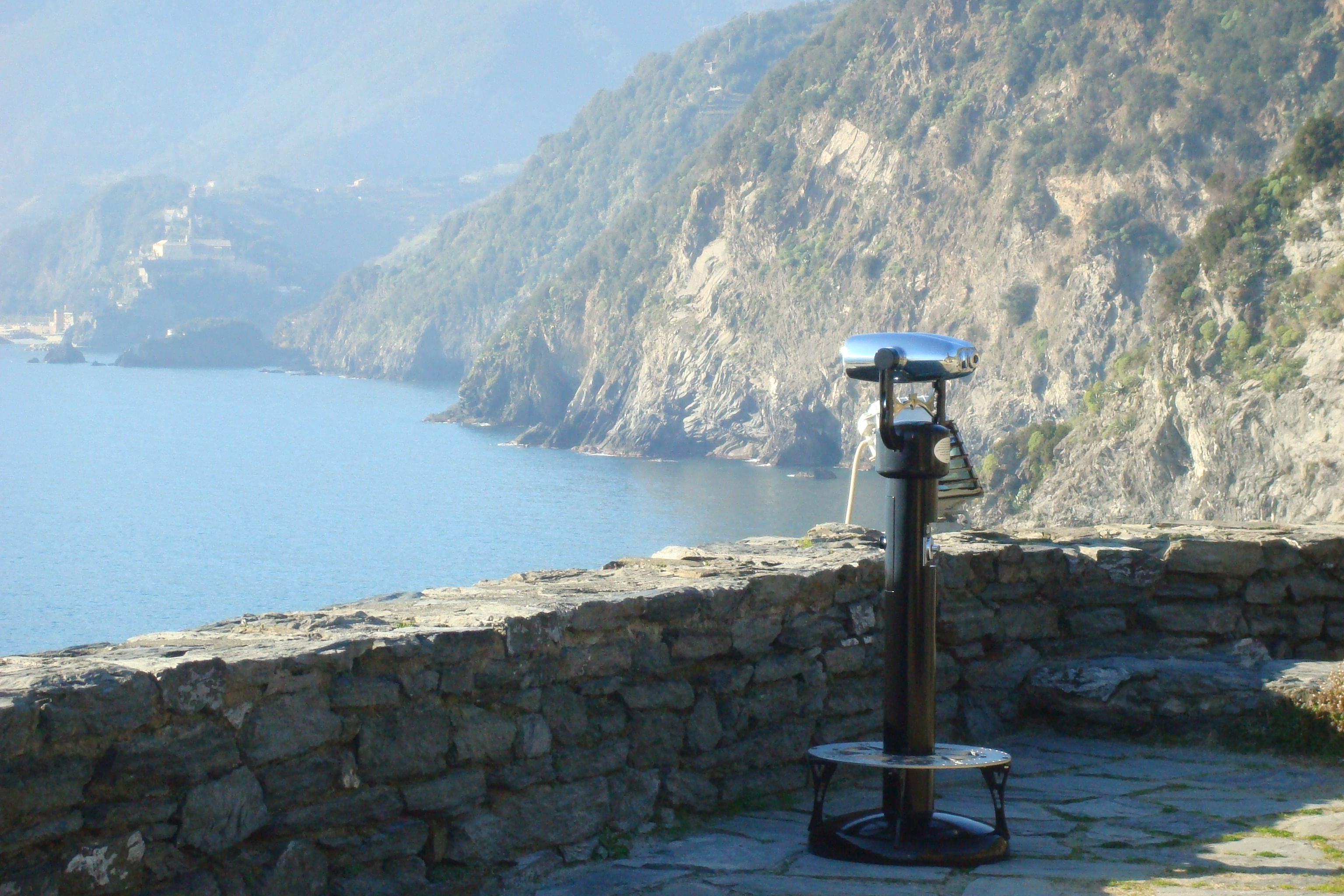 Coin Operated Viewing Devices model: Vellardi. Telescopes, Viewfinders and Binoculars, perfect for viewing on a coin , pay-per view basis Made in Italy